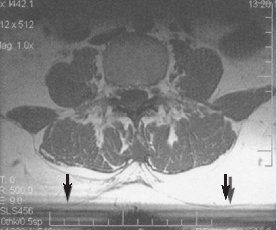 MRI with slice-to-slice interference. For context, see: MRI artifact